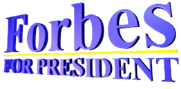 Steve Forbes presidential campaign, 1996